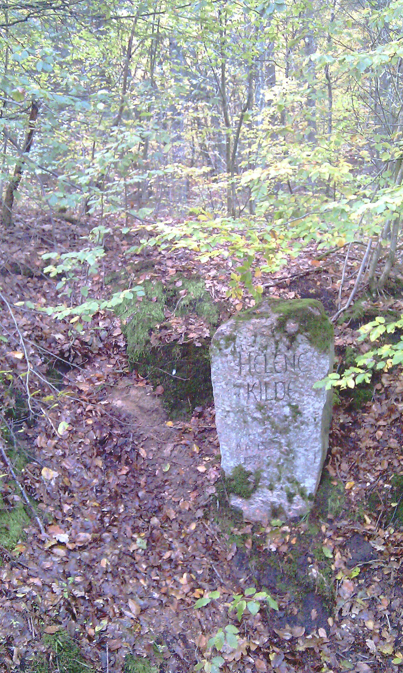 Marking at the site of the old Helenekilde "Spring of Saint Helen" in Hammer Bakker, Aalborg, Denmark